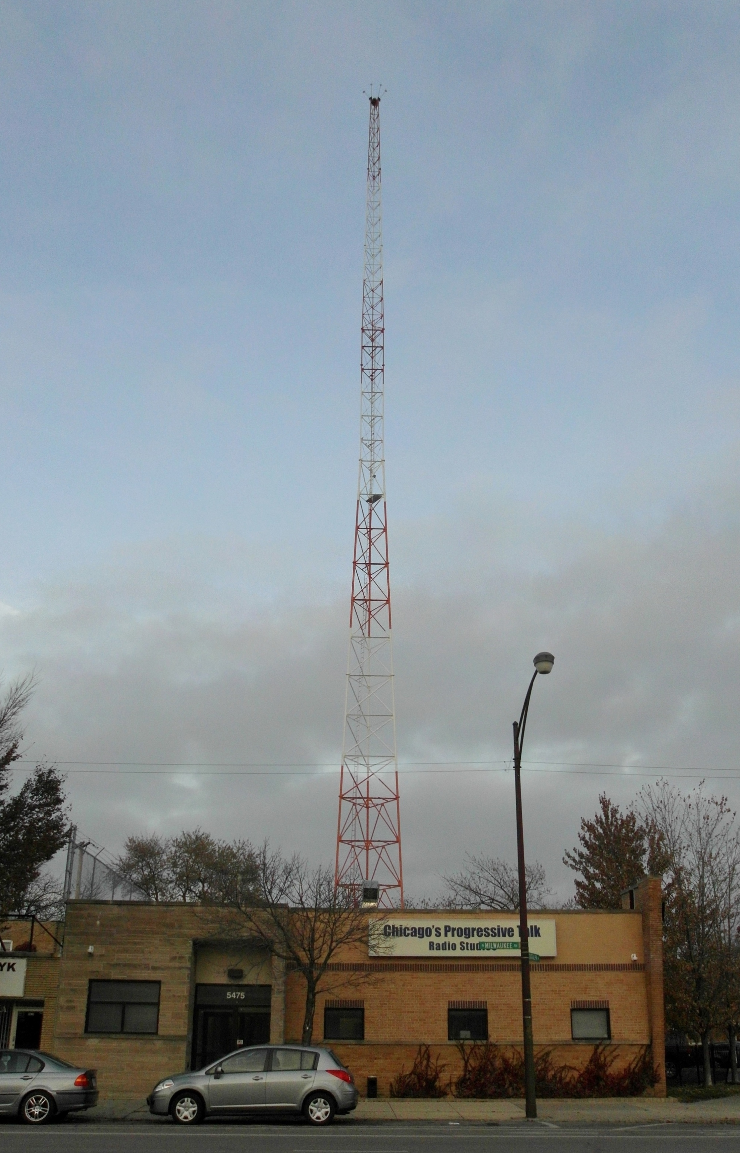 WCPT's studio building and daytime tower on Milwaukee Ave in Chicago.